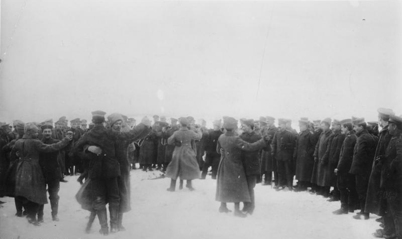 "Fraternisation on the Eastern Front" Centre Picture First Wolrd War1914-1918 During the truce on the Eastern Front in 1918. German and Russian soldiers celebrate between the lines. [Scherl Bilderdienst]